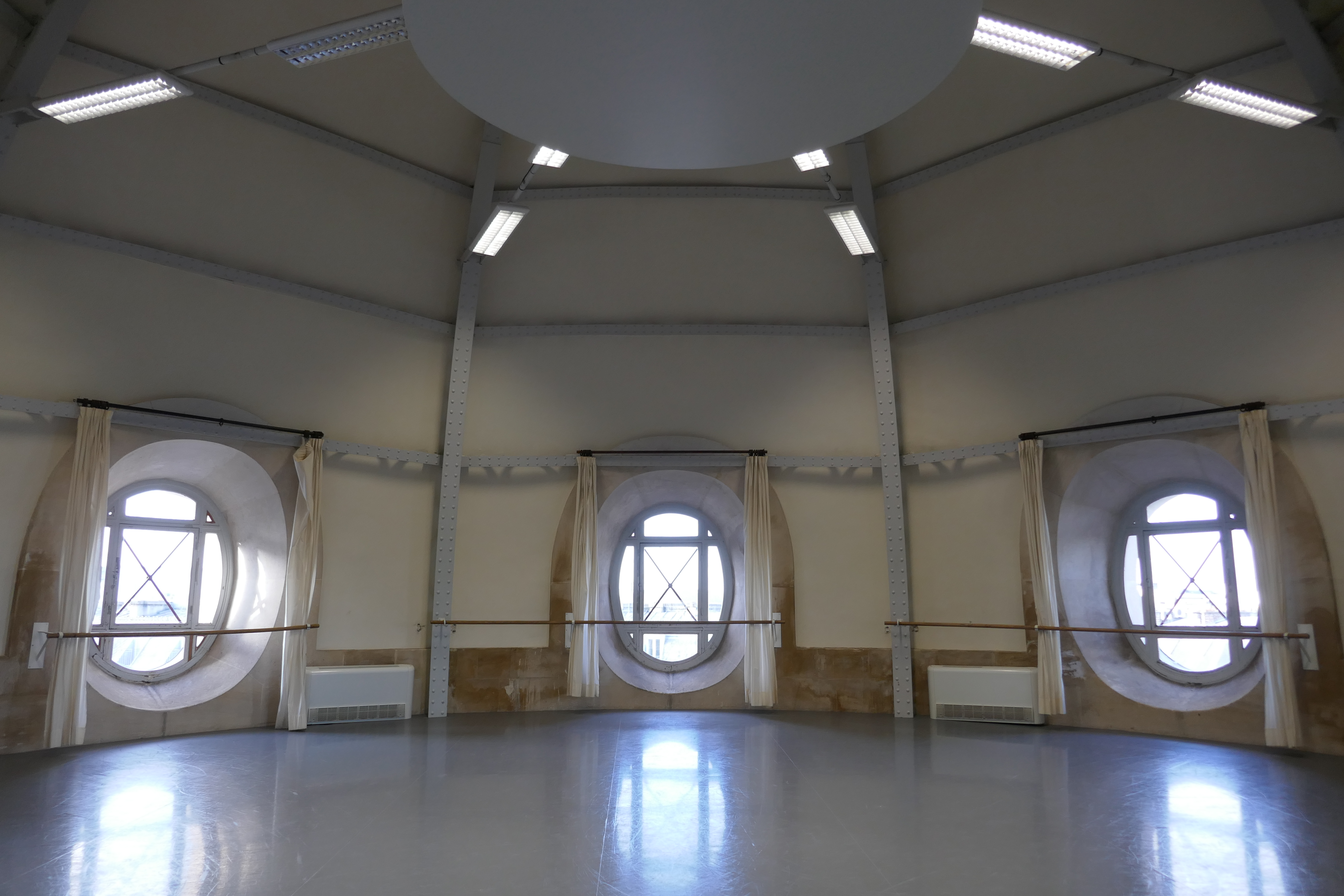 Opéra Garnier - Zambelli rehearsal room